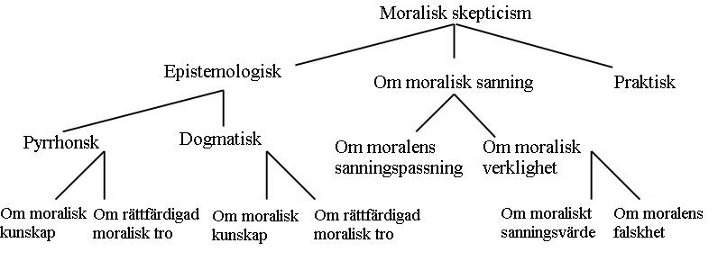 Different positions of moral skepticism illustrated